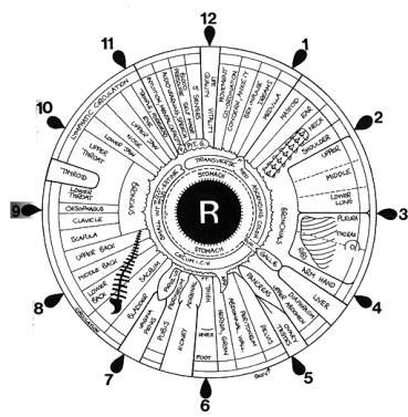 An iris chart used in iridology, right iris as viewed reflected in the mirror.